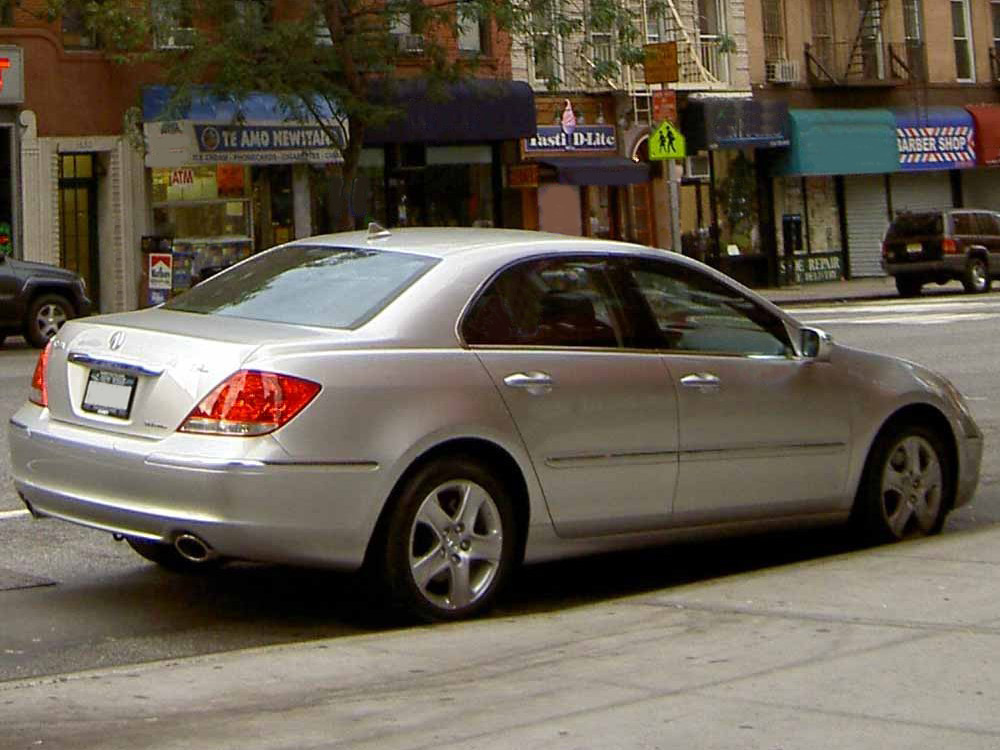 2006 Acura RL photographed in New York, U.S.A.